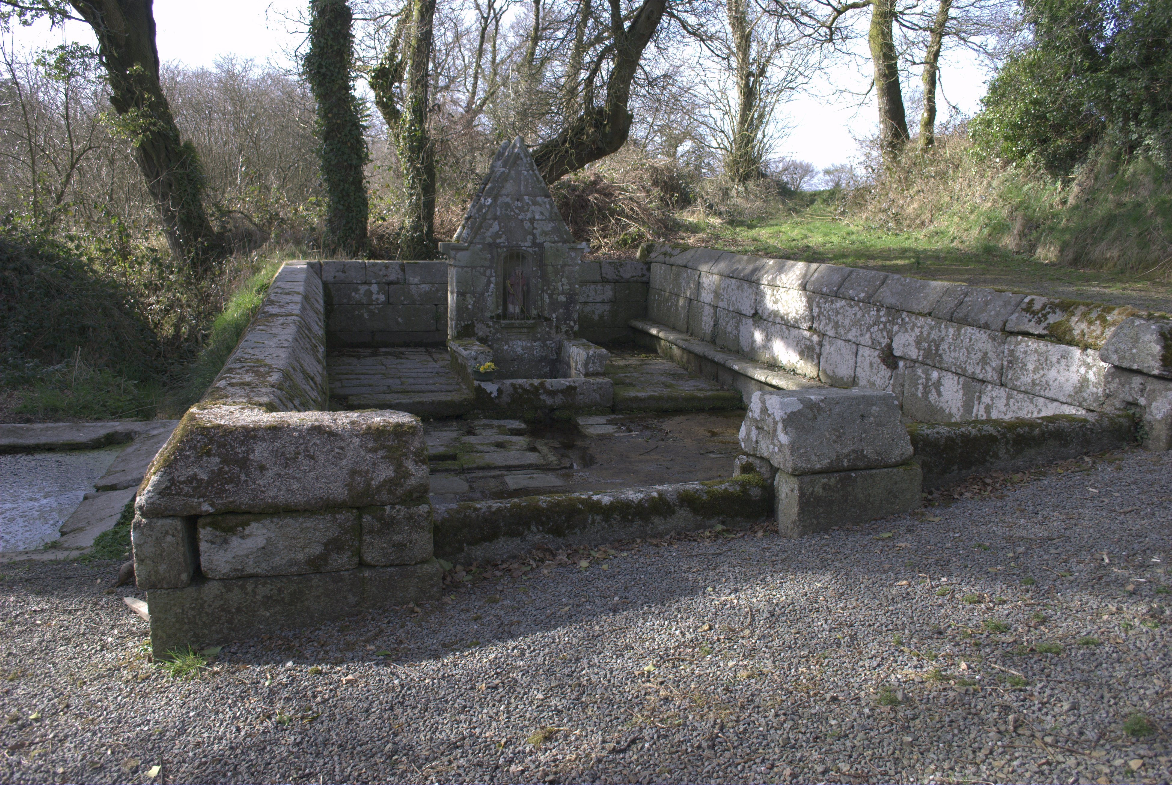 Fountain of Saint-Gildas in the village of Magoar(France).